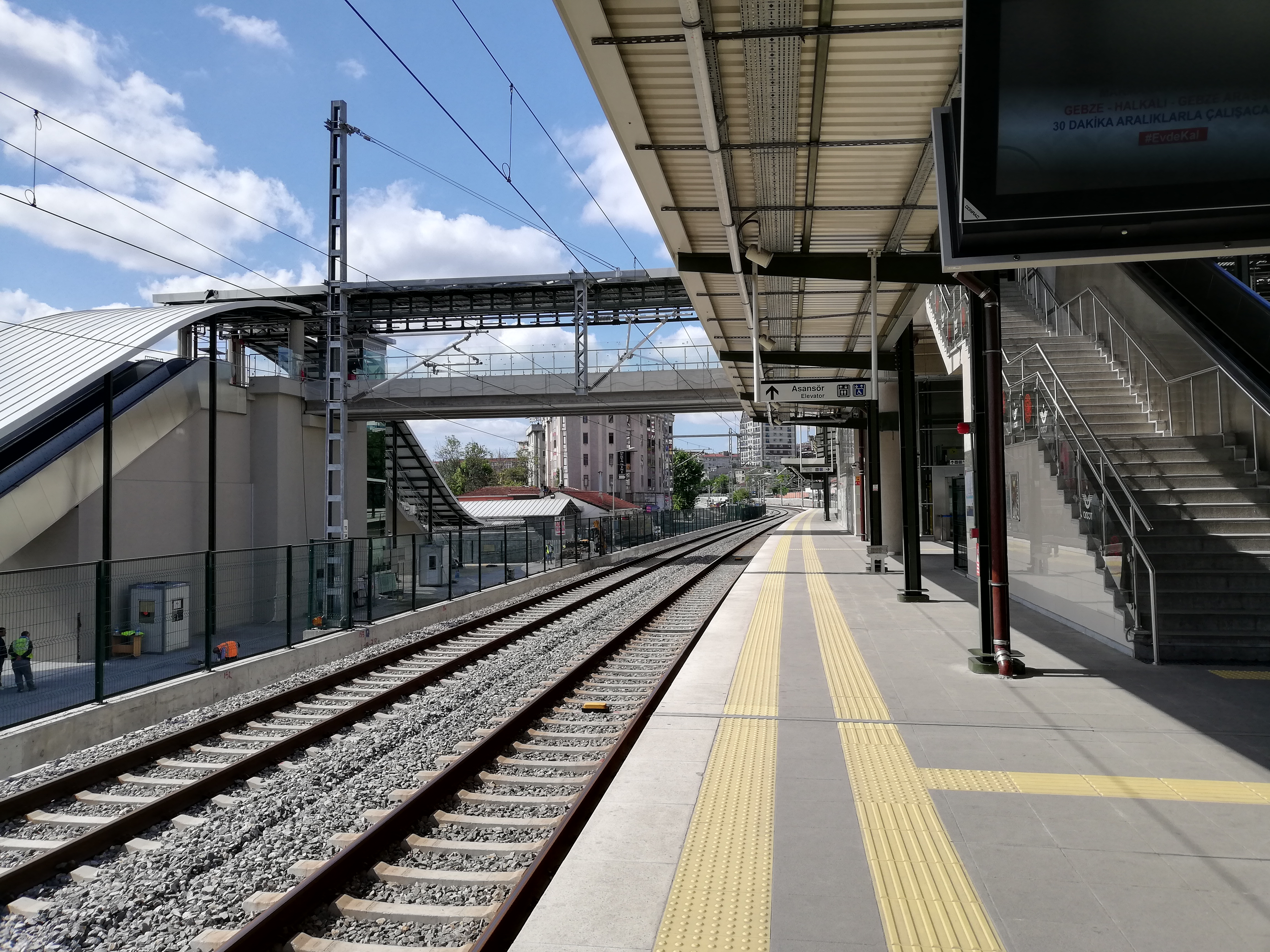 A view to the north in Küçükçekmece Marmaray train station.